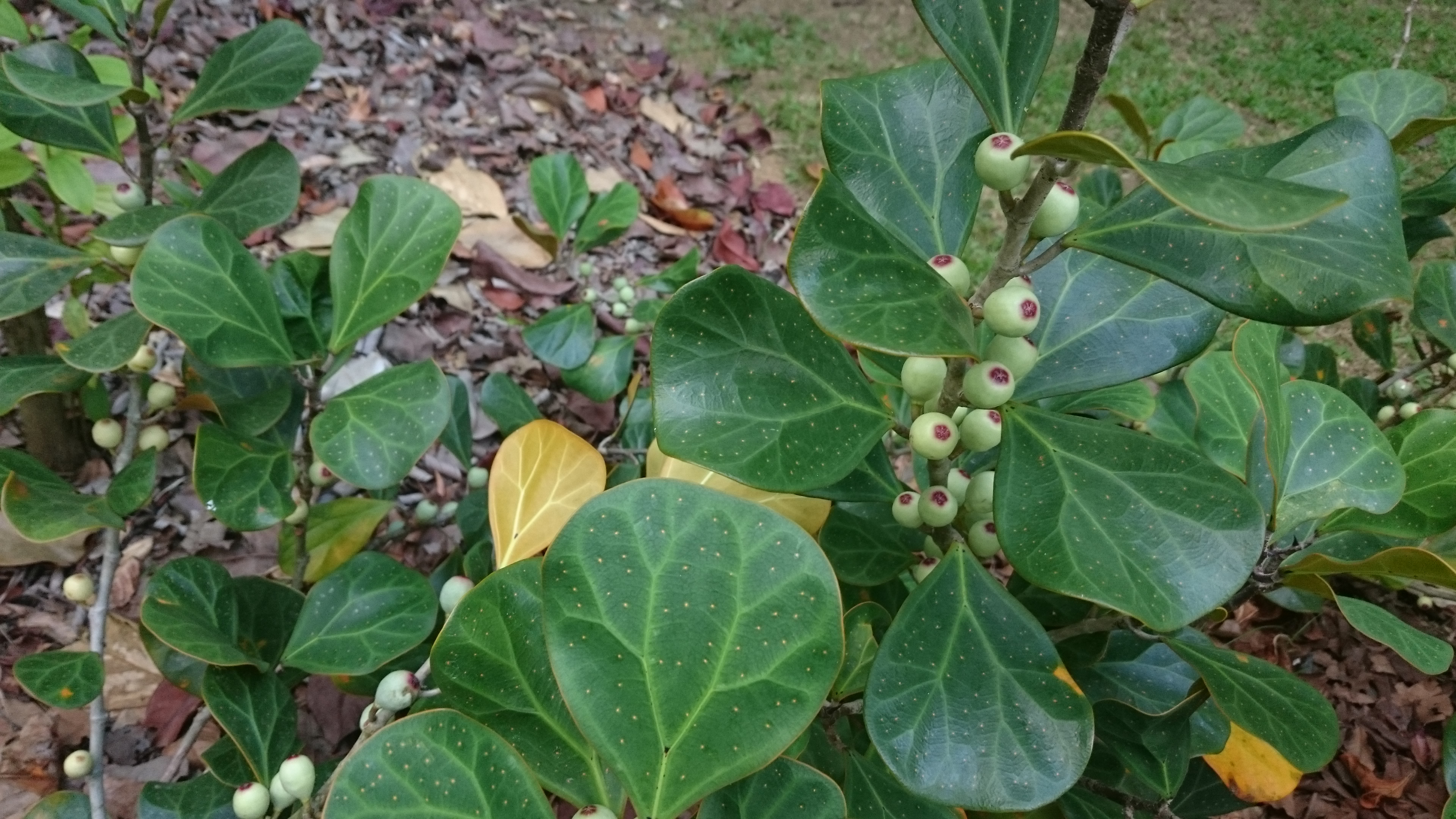 Rhodamnia cinerea. Common names: silverback, meroyan. Distributed from Myanmar to Australia. A decoction of leaves and roots is used for post-natal care.